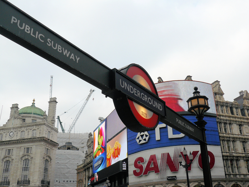 Piccadilly Circus Tube Station Entrance